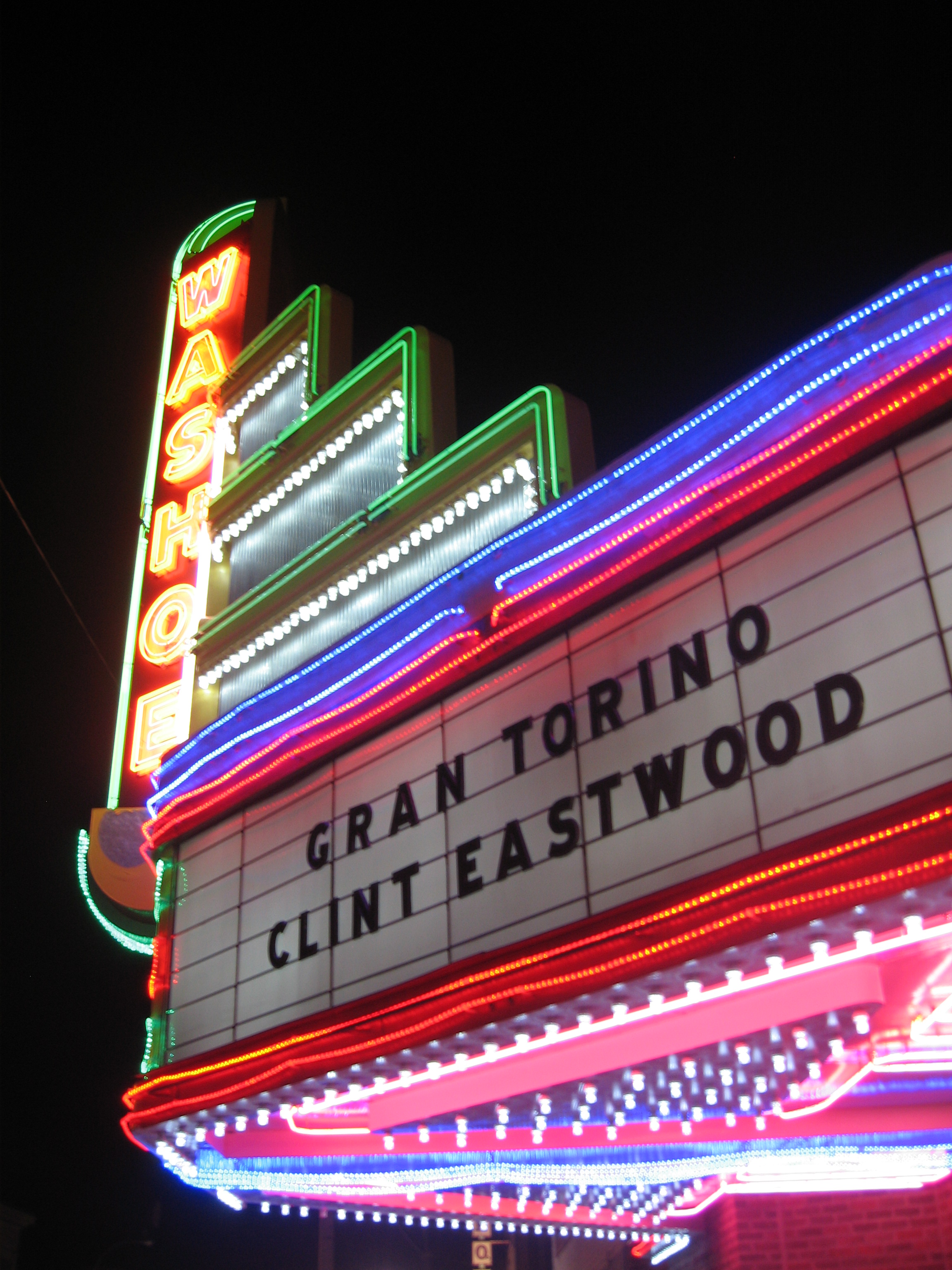 Marquis of the Washoe Theater, reading Gran Turino Clint Eastwood